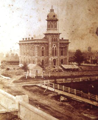 This is the fourth and current Geauga County Courthouse. This photo was taken during its construction. Captioned As { }